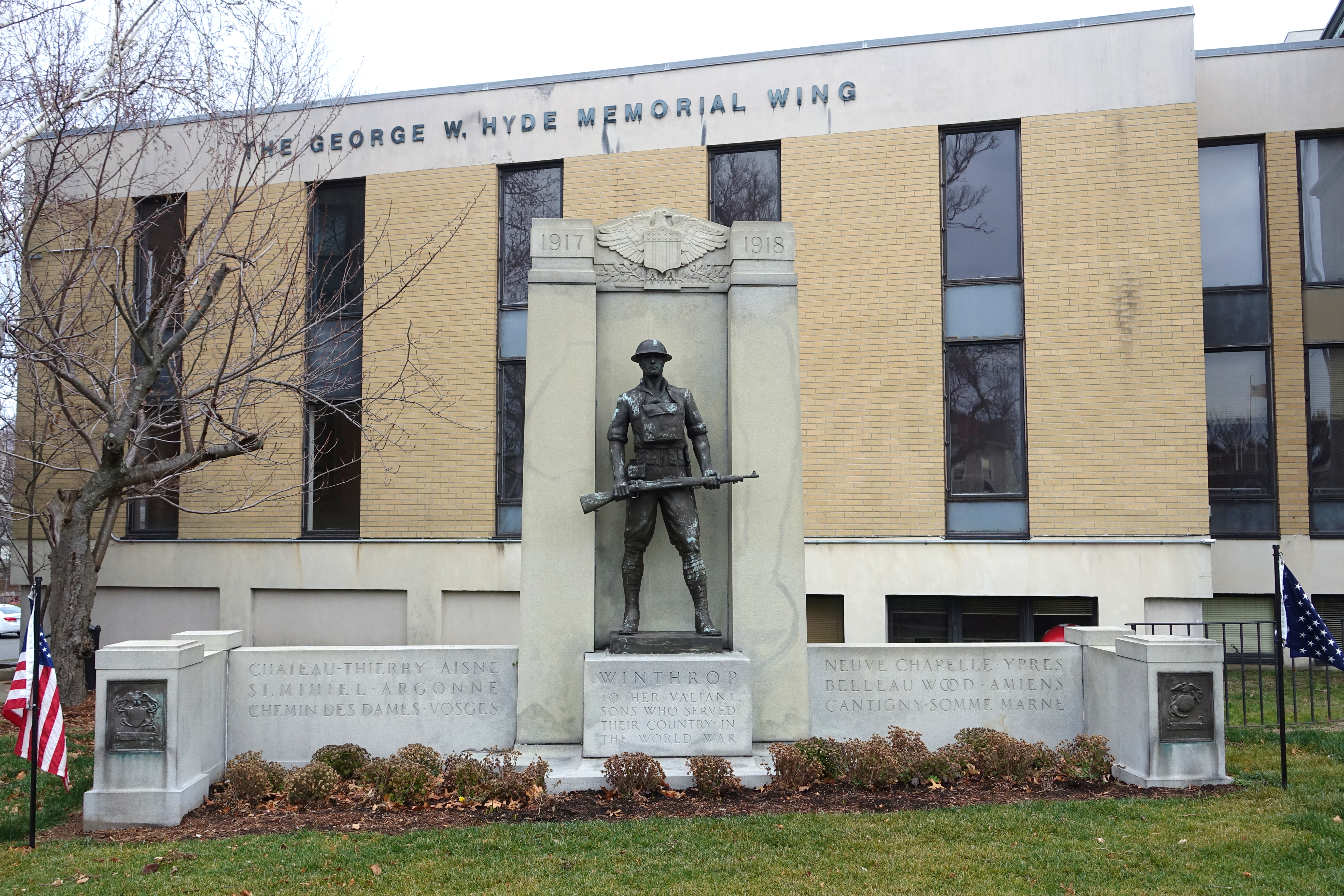 World War I Memorial - Winthrop, Massachusetts, USA. Dedicated in 1927. Sculptor: Gerald T. Horrigan (1903-1995). This artwork is in the public domain because it was published in the United States between 1923 and 1963, with its copyright not renewed.